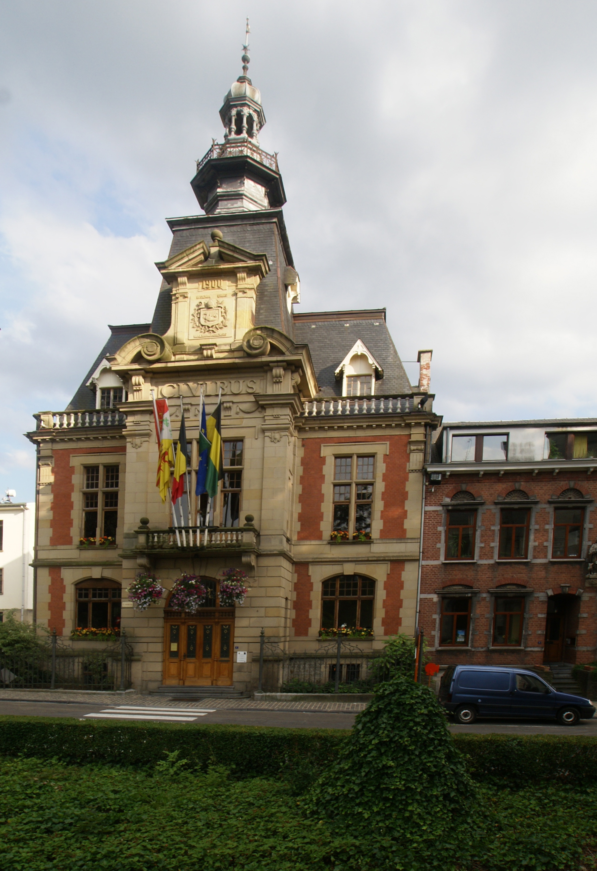 Malmedy (Belgium): Town Hall (1901)